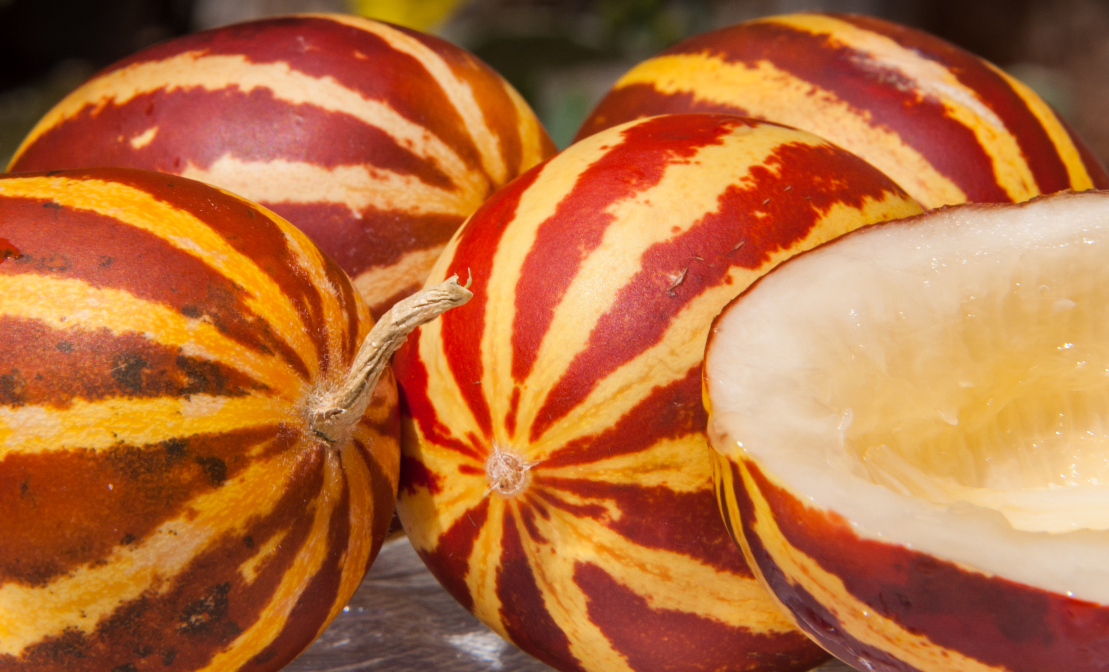 A Persian fruit.